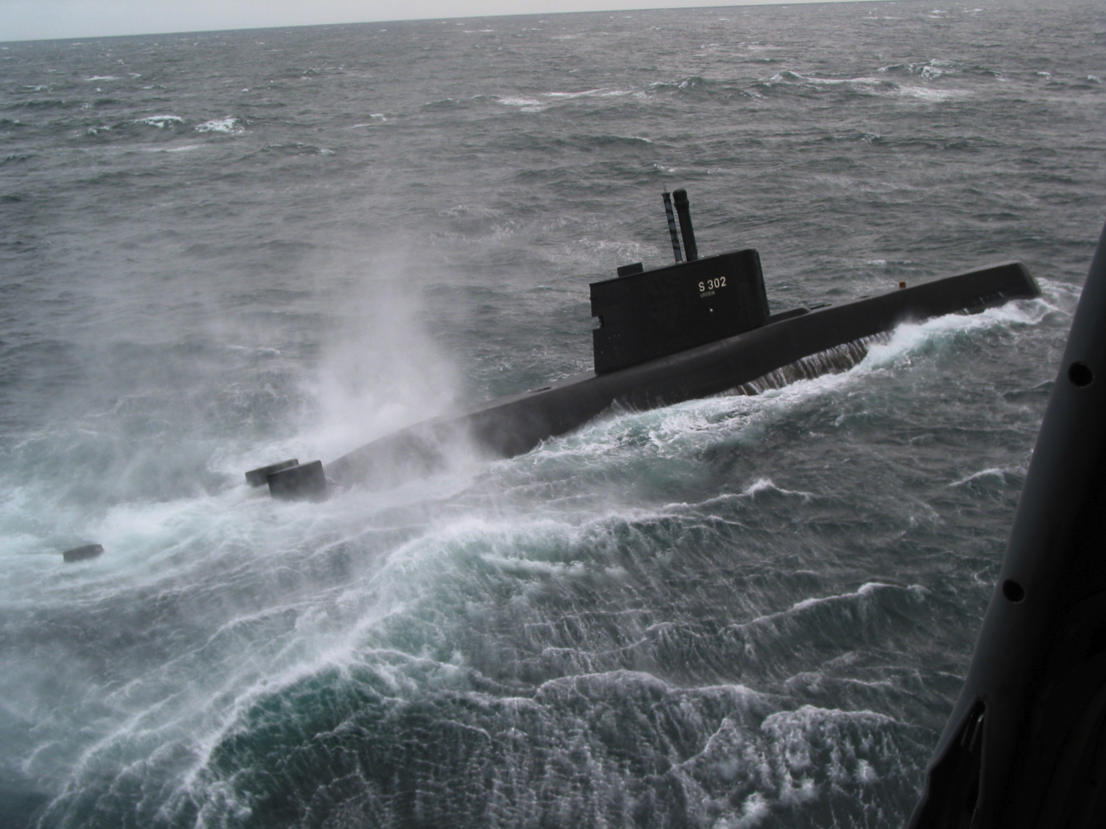 030827-N-4307F-011 North Sea (Aug. 27, 2003) -- The Norwegian ULA class submarine Utstein (KNM 302) participates in NATO exercise Odin-One. The Norwegian submarine and other naval vessels joined U.S. active and reserve anti-submarine forces, including the stealth nuclear-powered submarine, USS Seawolf (SSN 21). The mission of the North Sea War-time exercise was to hunt Allied and NATO submarines. During the exercise, the “Emerald Knights” of Helicopter Anti-Submarine Squadron Seventy-Five (HS-75) logged nearly fifty hours of submarine contact within three days and performed countless simulated contacts and kills. Exercise Odin-One represents the strong Allied bond between the U.S. and Norway. U.S. Navy photo. (RELEASED)